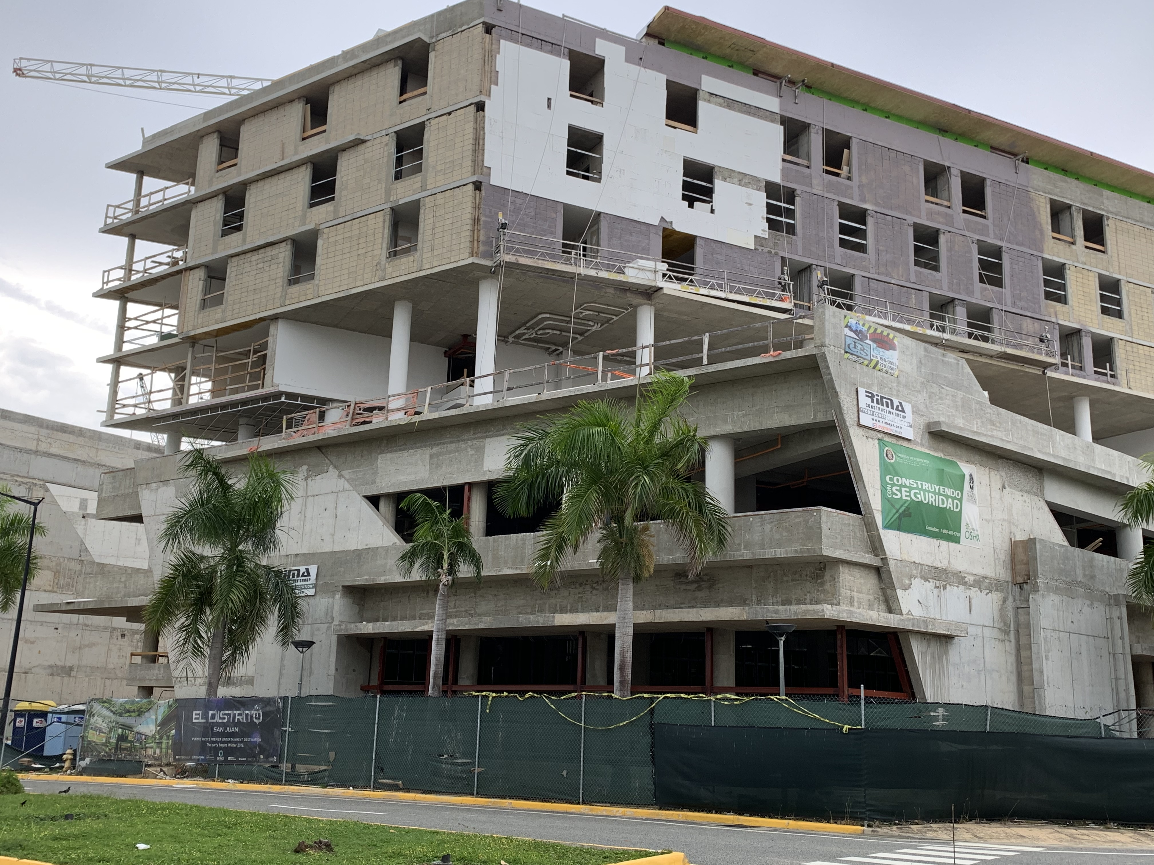 Entertainment complex El Distrito under construction at the Puerto Rico Convention Center.